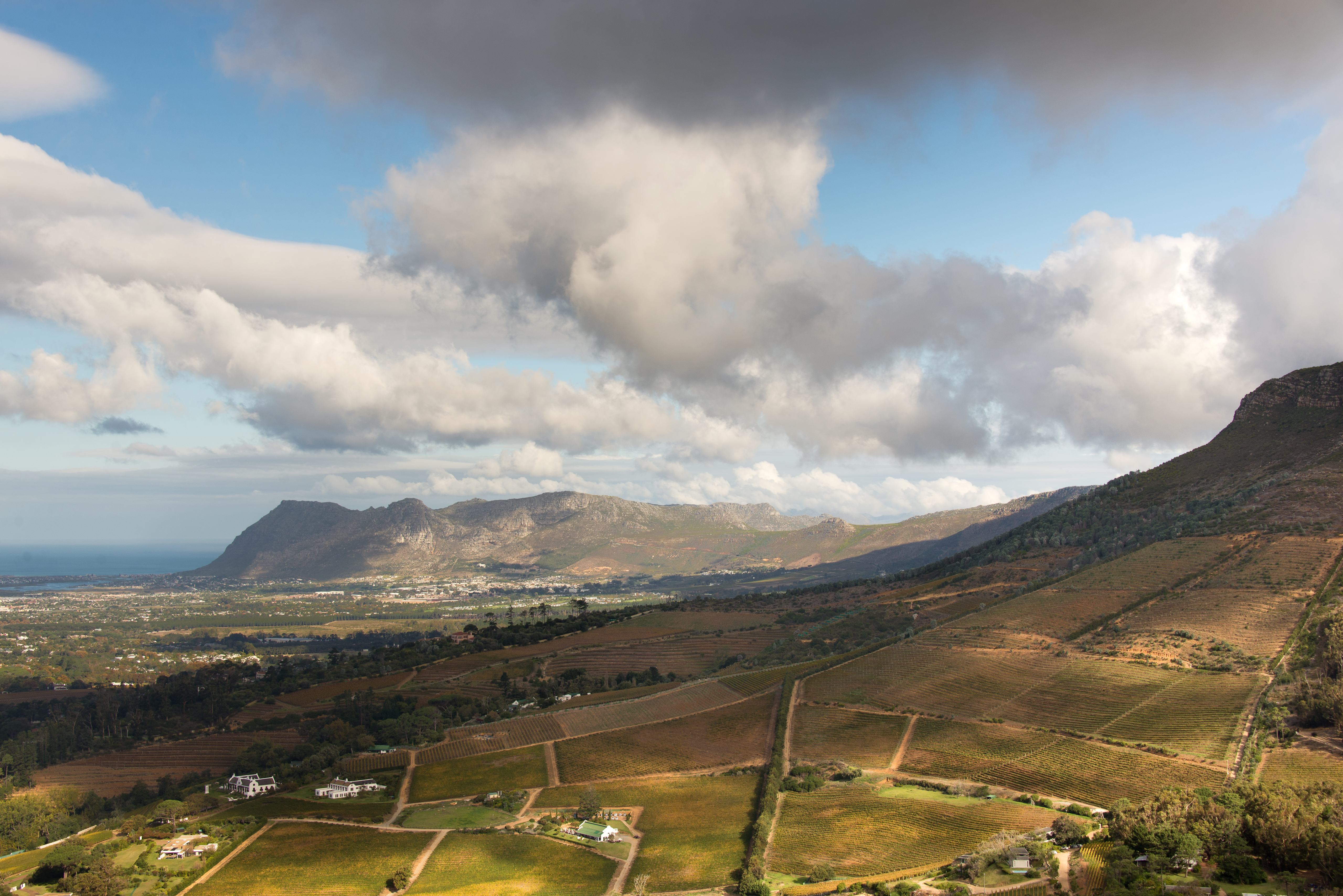 Looking from above and farmland in Cape Town South Africa on a cloudy day